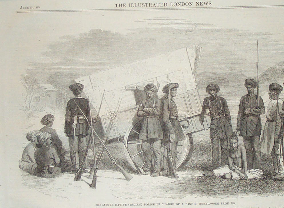 "Sholapore Native (Indian) Police in Charge of a Hindoo Rebel" (who seemed to be Nana Sahib, but his identity was hard to pin down); Illustrated London News, 1863